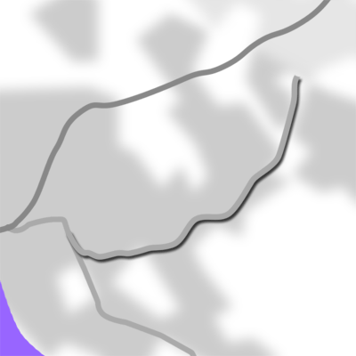 Projected tramway using goods line in Bonn: Beuel — Pützchen — Kohlkaul — Hangelar